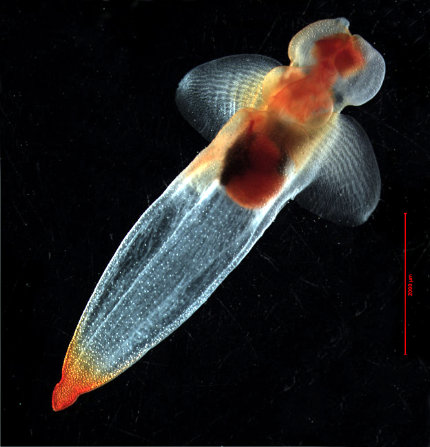 Clione limacina, a shell-less snail know as the Sea Butterfly swims in the shallow waters beneath Arctic ice.